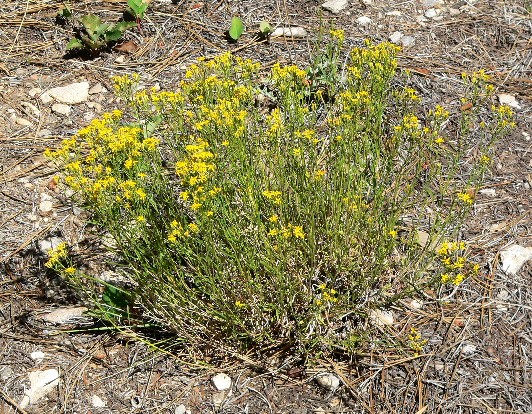 Gutierrezia sarothrae in Rainbow Canyon just above the Rainbow Subdivision, Kyle Canyon, Spring Mountains, southern Nevada (elev. about 2300 m)